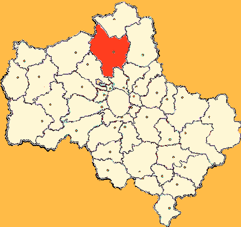 Moscow Region map by Al Silonov